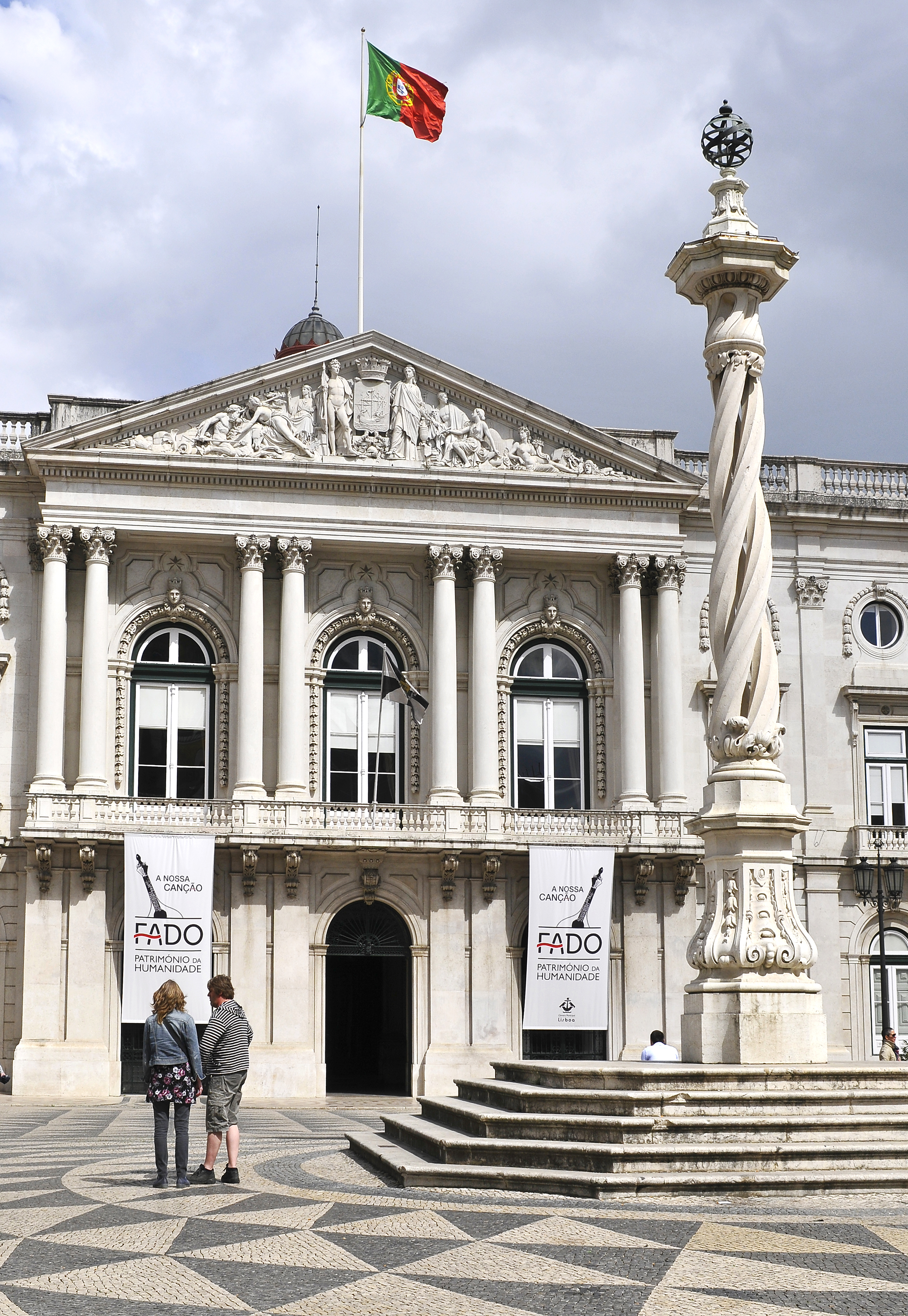 Town Hall and "pelourinho" [jurisdictional column]. Lisbon, Portugal